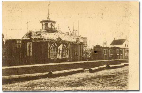 Historic Sites of Manitoba: Tin Can Cathedral (Dufferin Avenue, Winnipeg Built around 1904 along Dufferin Avenue in Winnipeg, under the authority of Bishop Seraphim